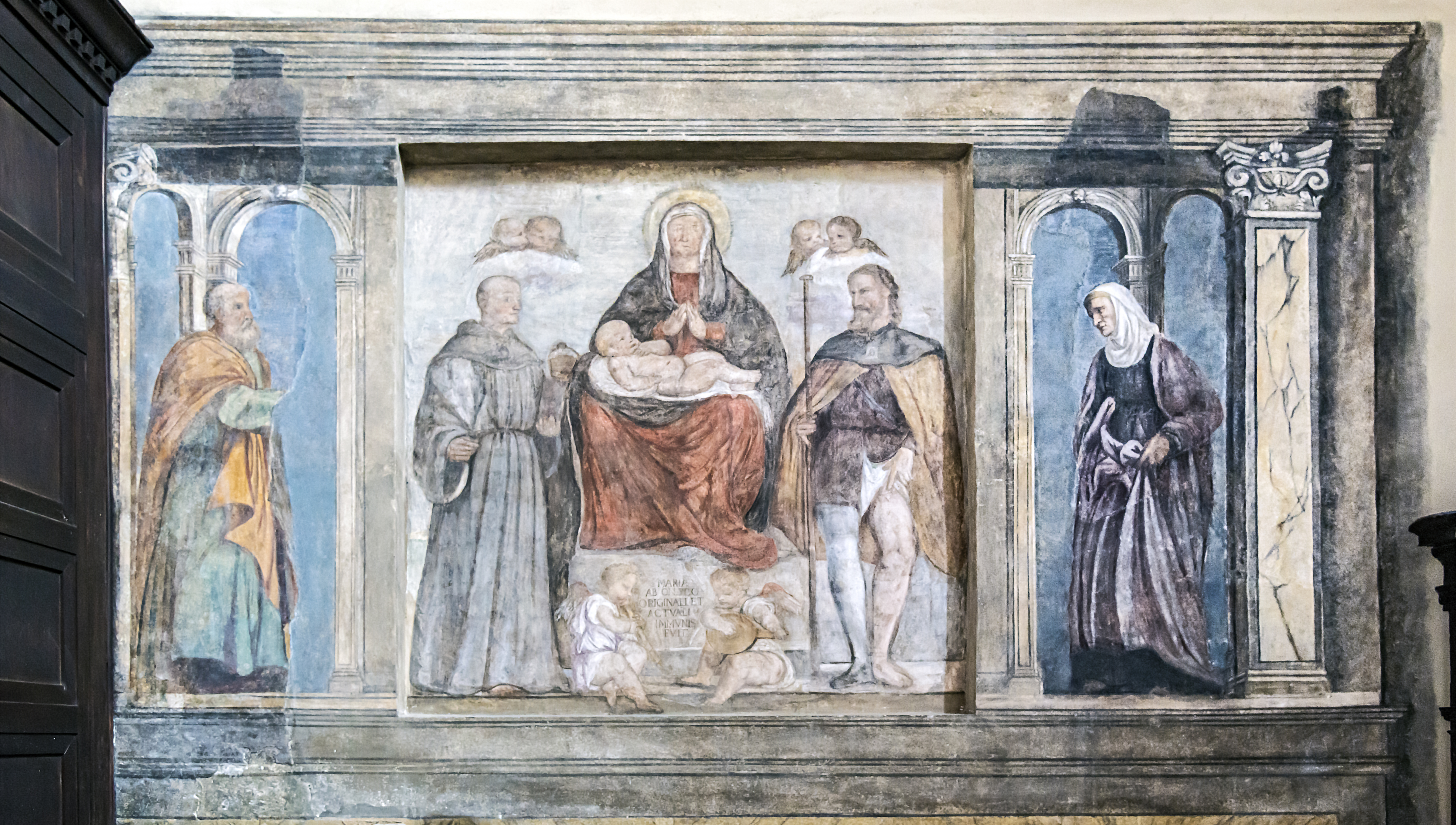 Church of Santa Maria dei Servi, Padua - Virgin and Child between Saint Roch and Saint Anthony, Saint Joachim and Saint Anne by Giroloamo Tessari.